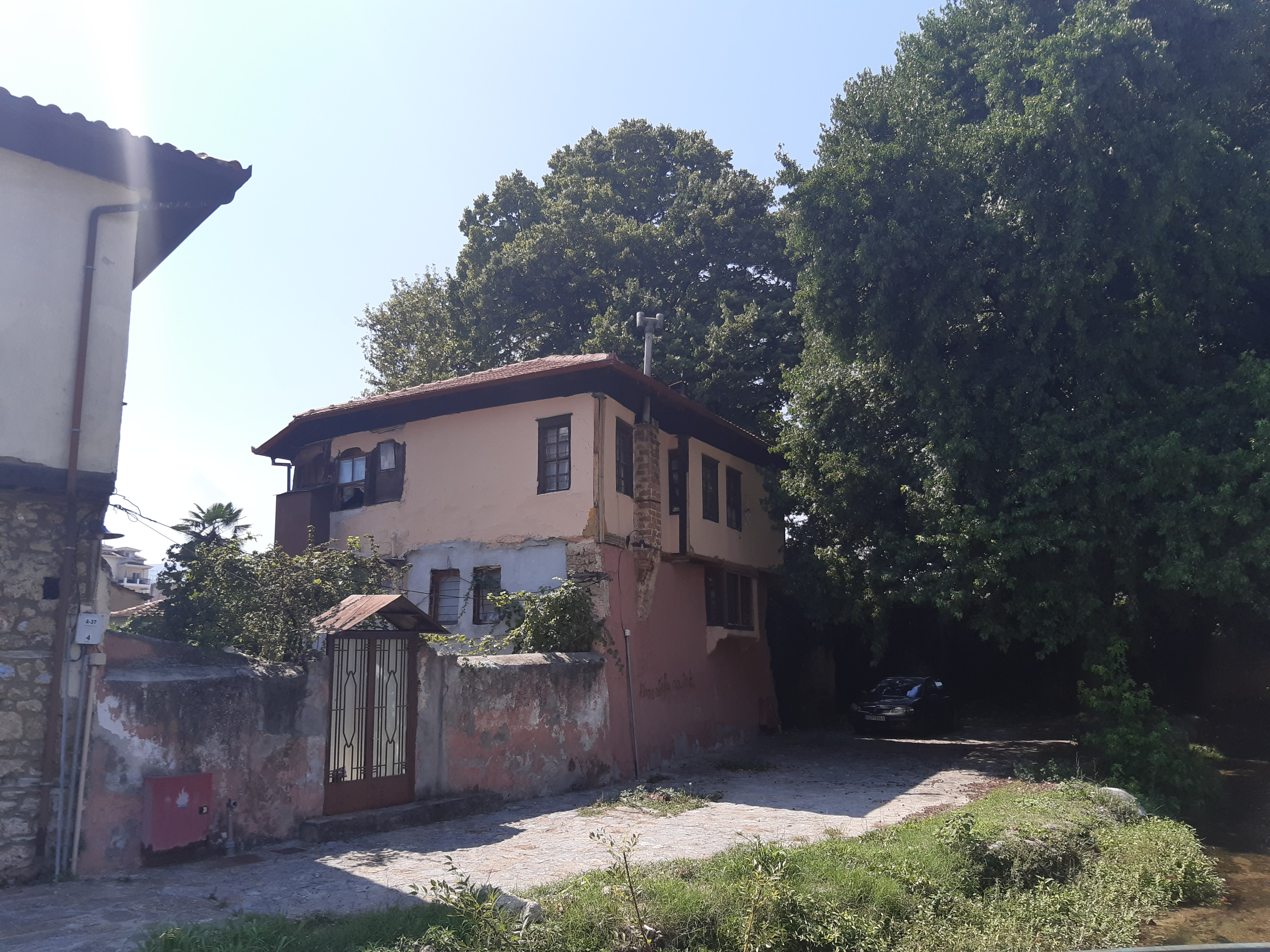 Dingolev House in Voden